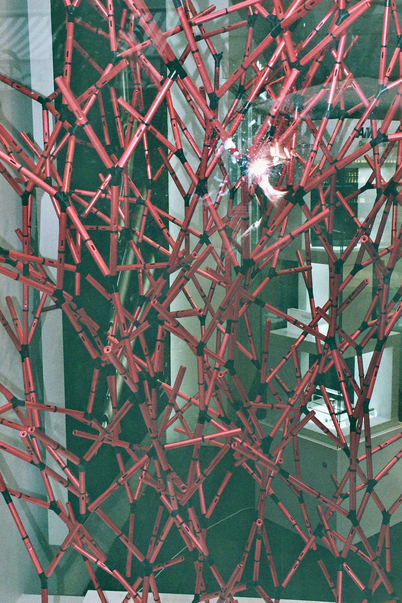 "ON ÉCRIT POUR TOUJOURS" ("Writing for ever"), a Dan Pero Manescu (Q-ART) analog conceptual photography, film: AGFA Vista-plus, 400 ASA, Minolta DYNAX 5 camera, 28-100 Zoom.